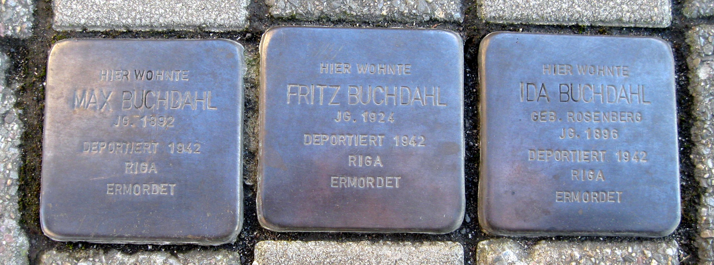 Stolpersteine at house Dorstfelder Hellweg 66 in Dortmund, Germany